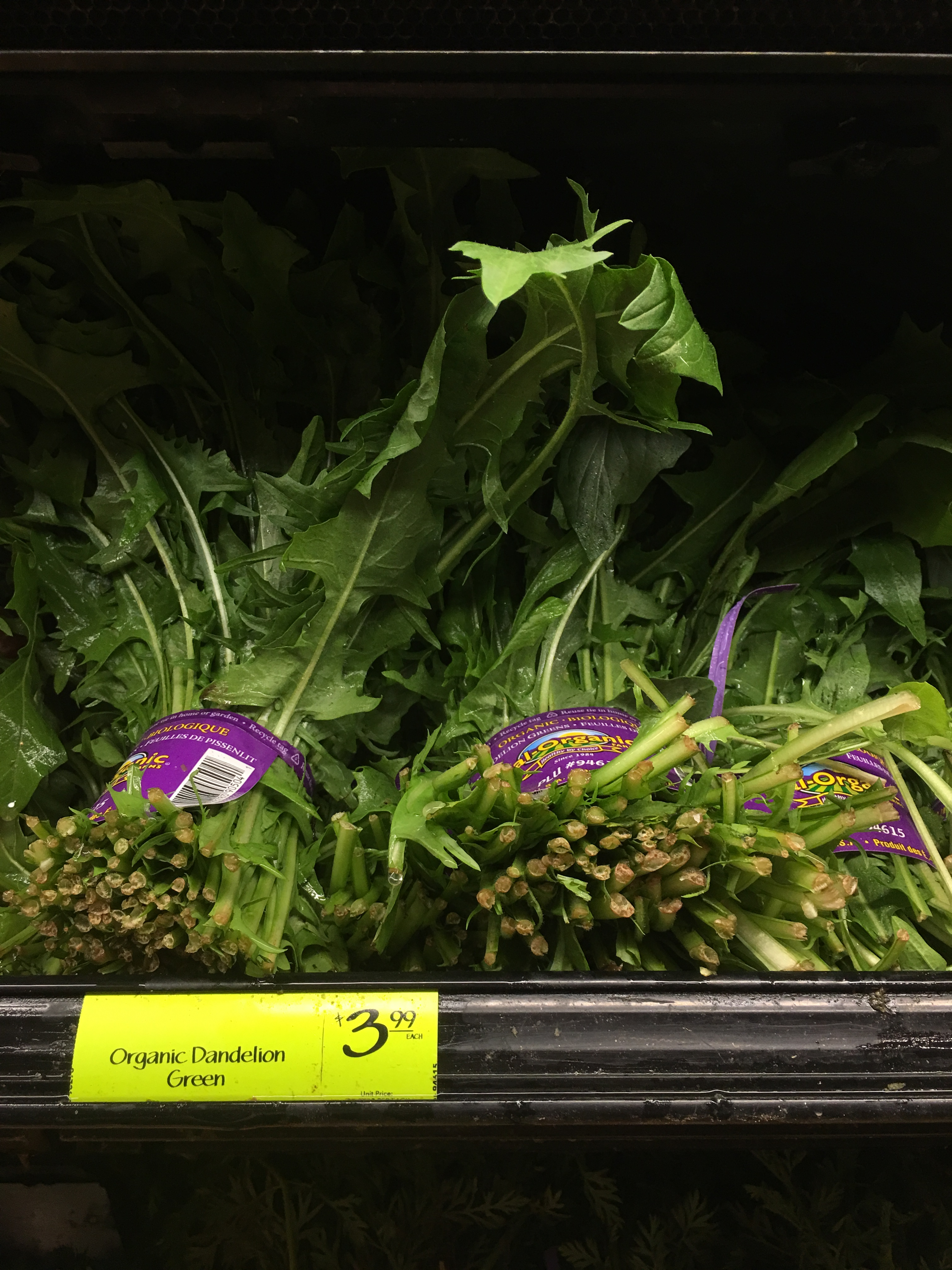 Dandelion greens sold at Whole Foods